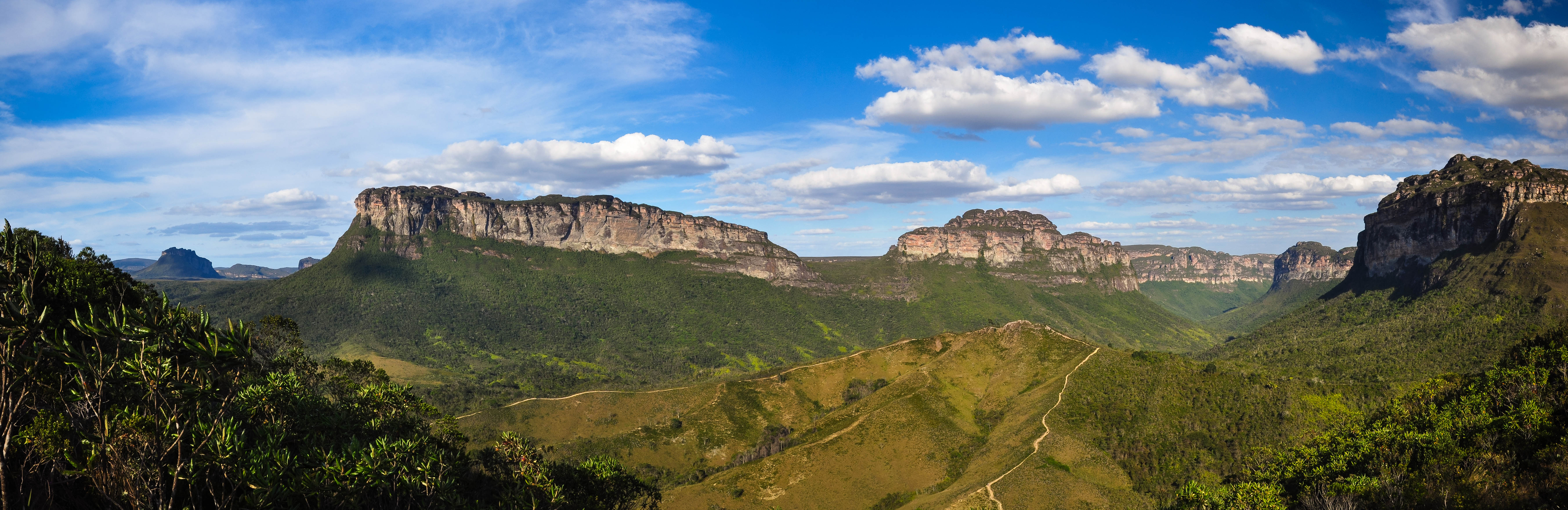 Panorama of the Pati Valley, Chapada Diamantina, a region protected by the homonymous National Park, Brazil.